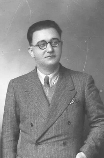 A young Ernest Koliqi